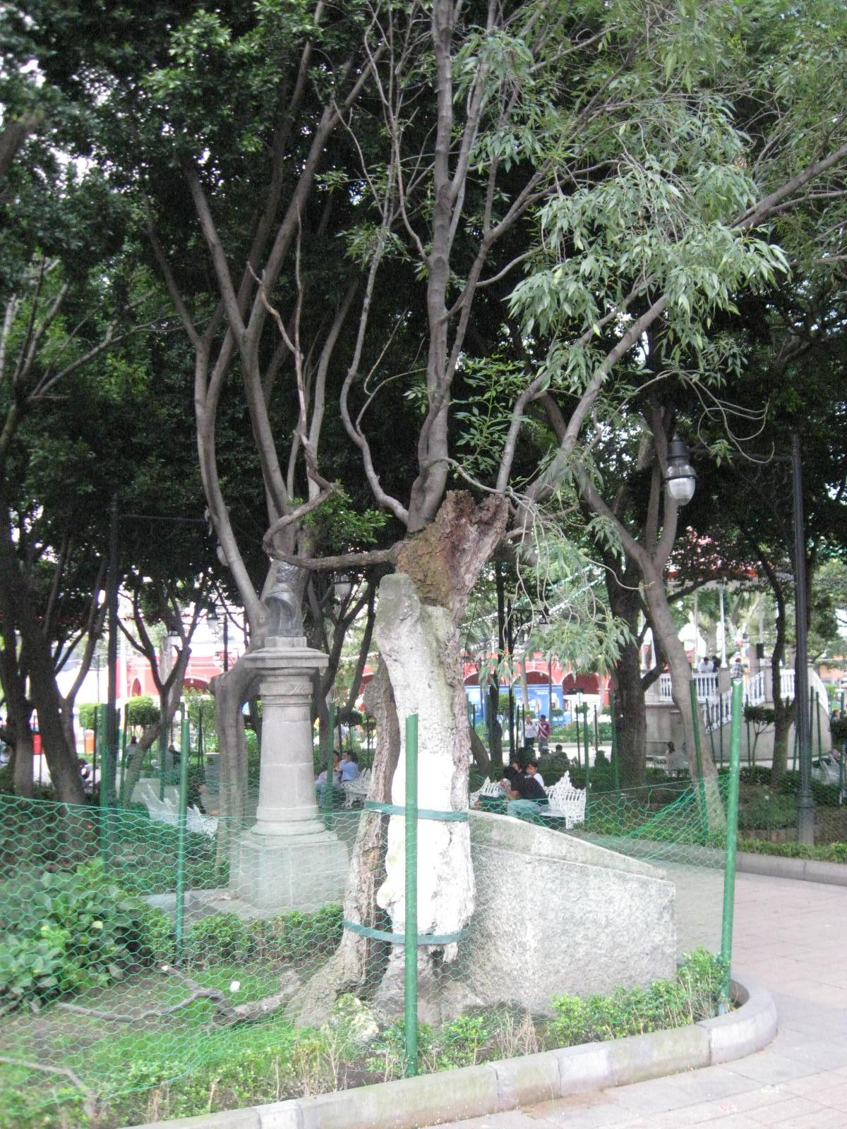 Tree in the Jardin Principal (Main Garden) of the Plaza Constitucional in Tlalpan Borough of Mexico City. From this tree were hung the following during the Mexican War of Independence, Coronels Felipe Muñoz and Vicente Martinez, Major Manuel Mutio, Captain Lorenzo Rivera and Lieutenant José Mutio